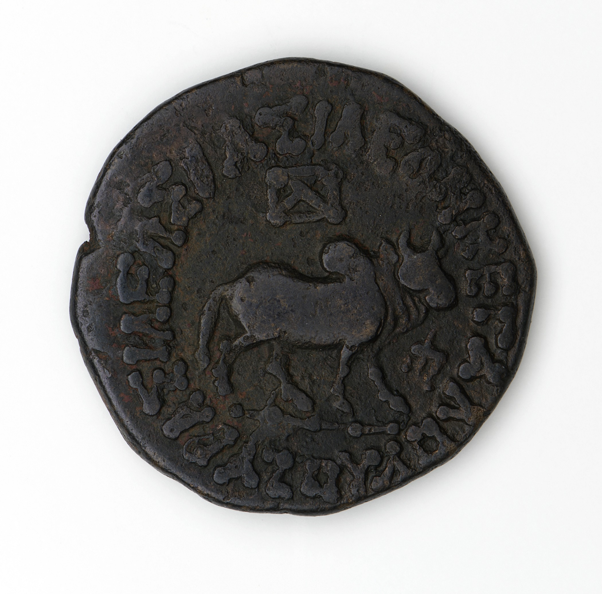 India, circa 20-1 B.C. Tools and Equipment; coins Copper alloy Purchased with funds provided by Anna Bing Arnold and Justin Dart (M.84.110.8) South and Southeast Asian Art